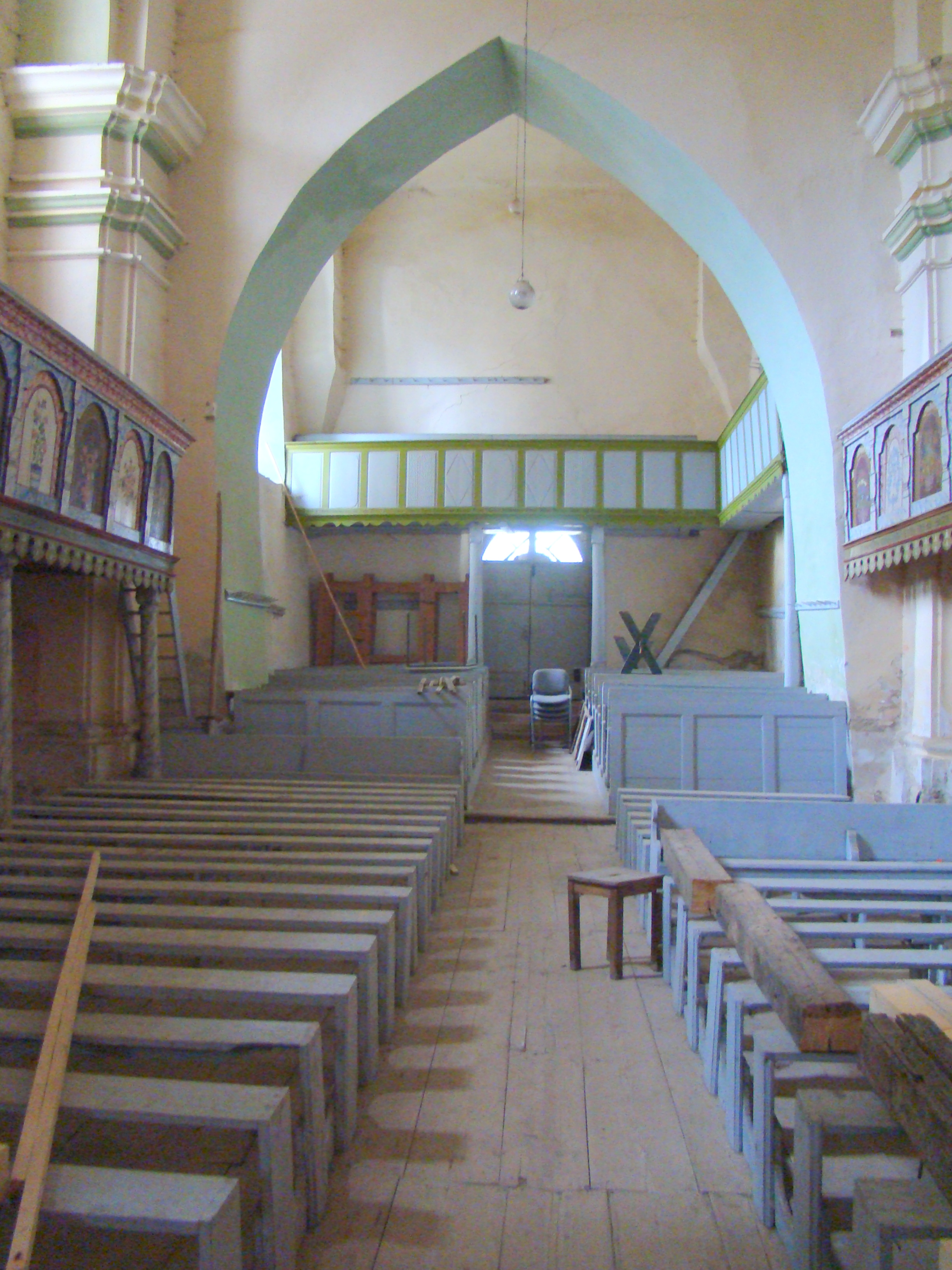 Lutheran church in Daia, Mureș county, Romania